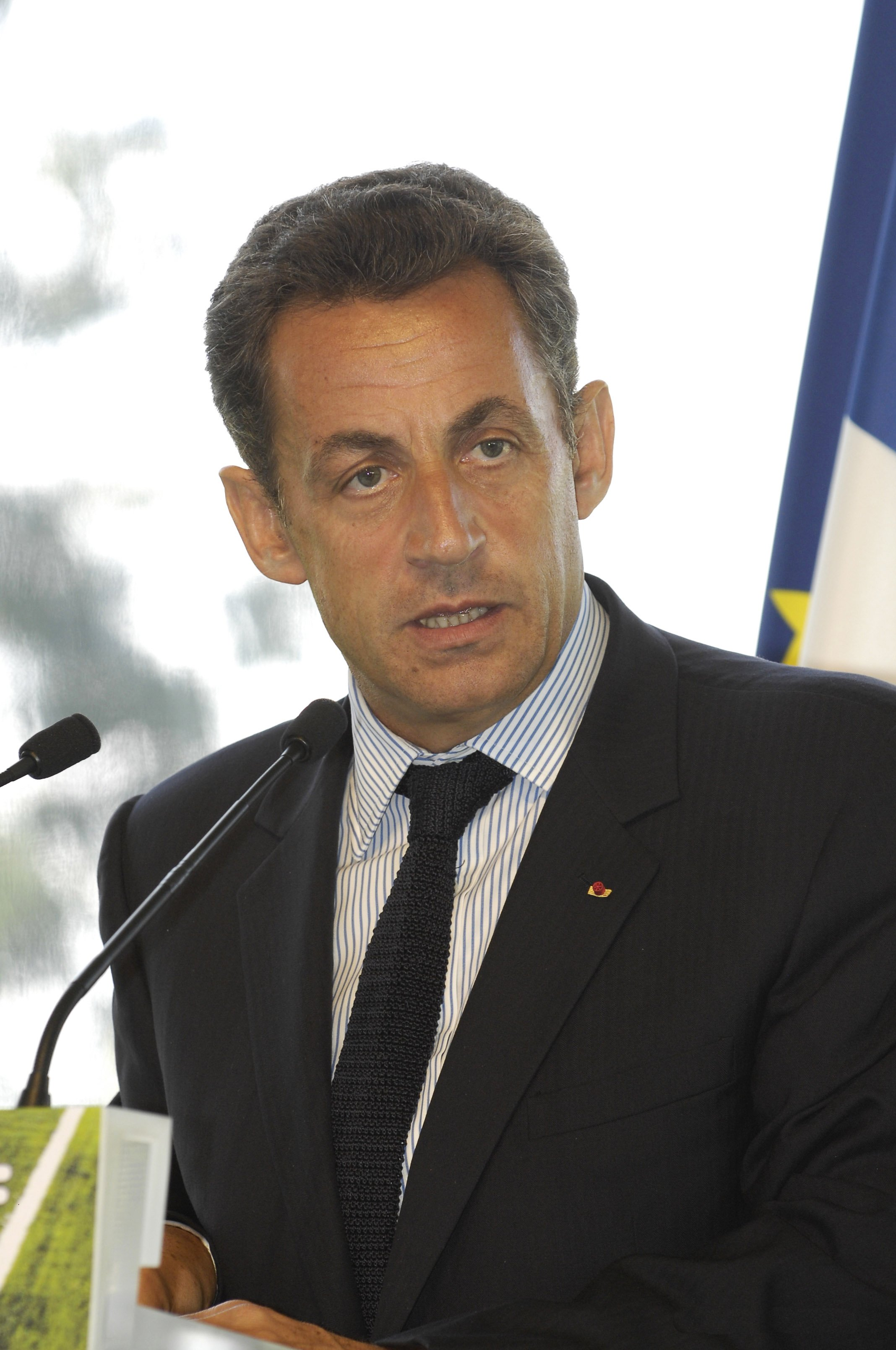 Nicolas Sarkozy, a watermark was present that said « Photo : Jean-Louis Aubert ».